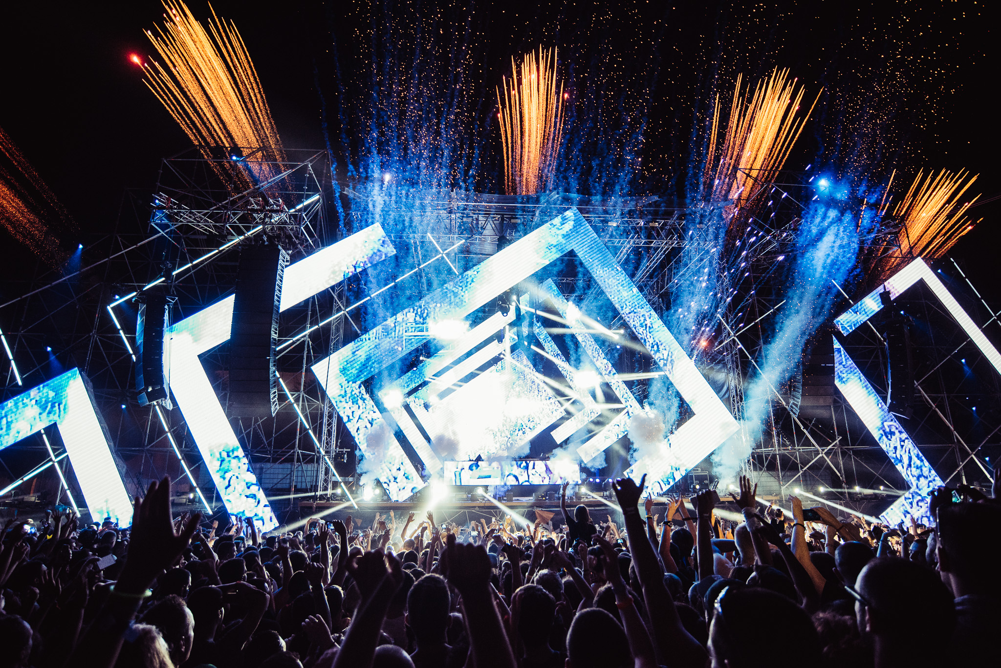 Robin Schultz at Exit Festival 2017. (by Benny Gaši)